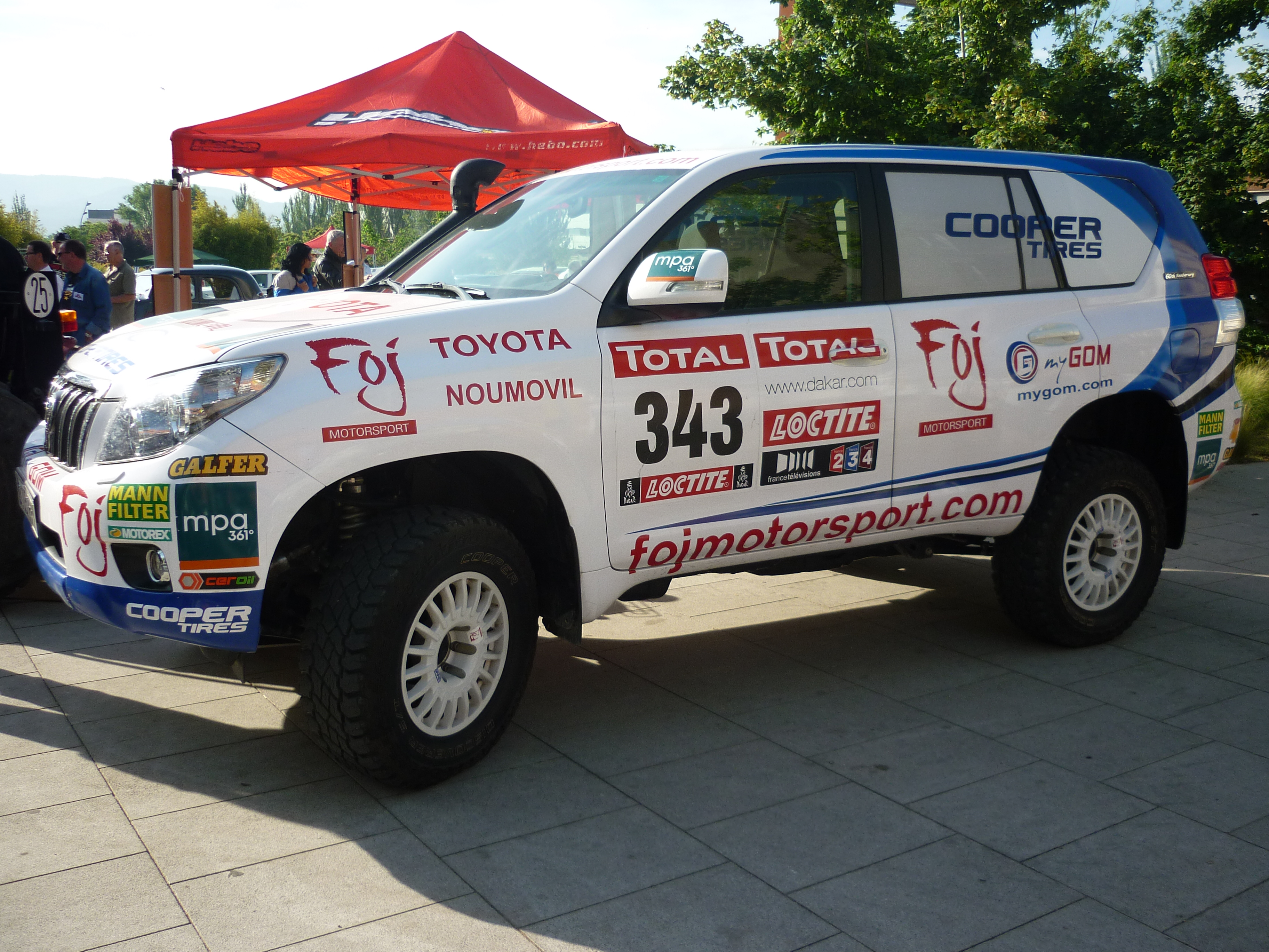 Xavier Foj drove this Toyota Land Cruiser 150 at the 2014 Dakar Rally